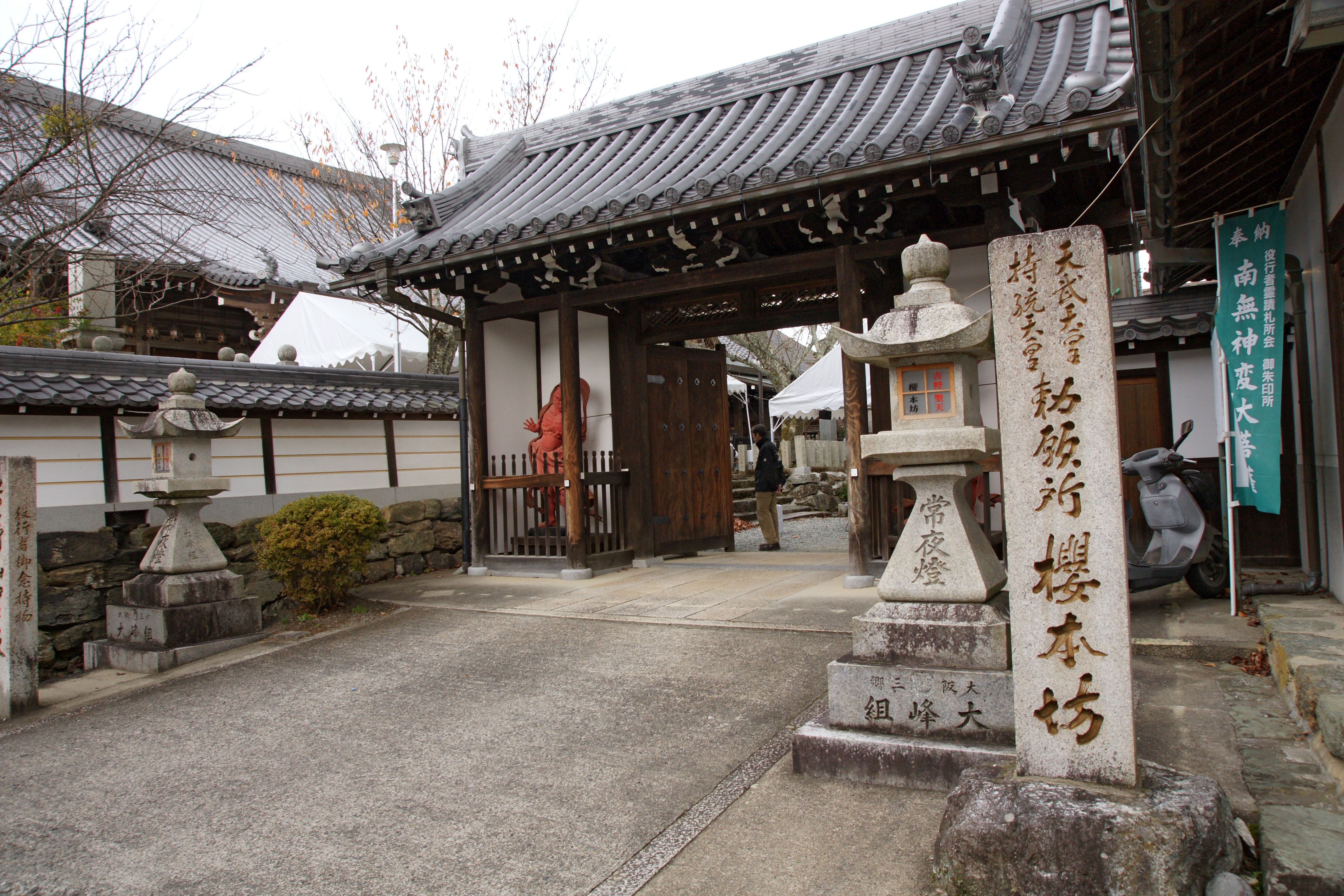 Sakuramotobo in Yoshino, Nara prefecture, Japan